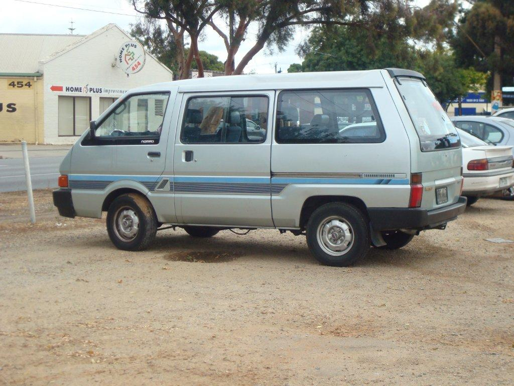 Not a big seller when new and now these are as rare as hens teeth now!! While the MPV verison was badged Nomad, the Commercial/Cargo model retained the Vanette name.